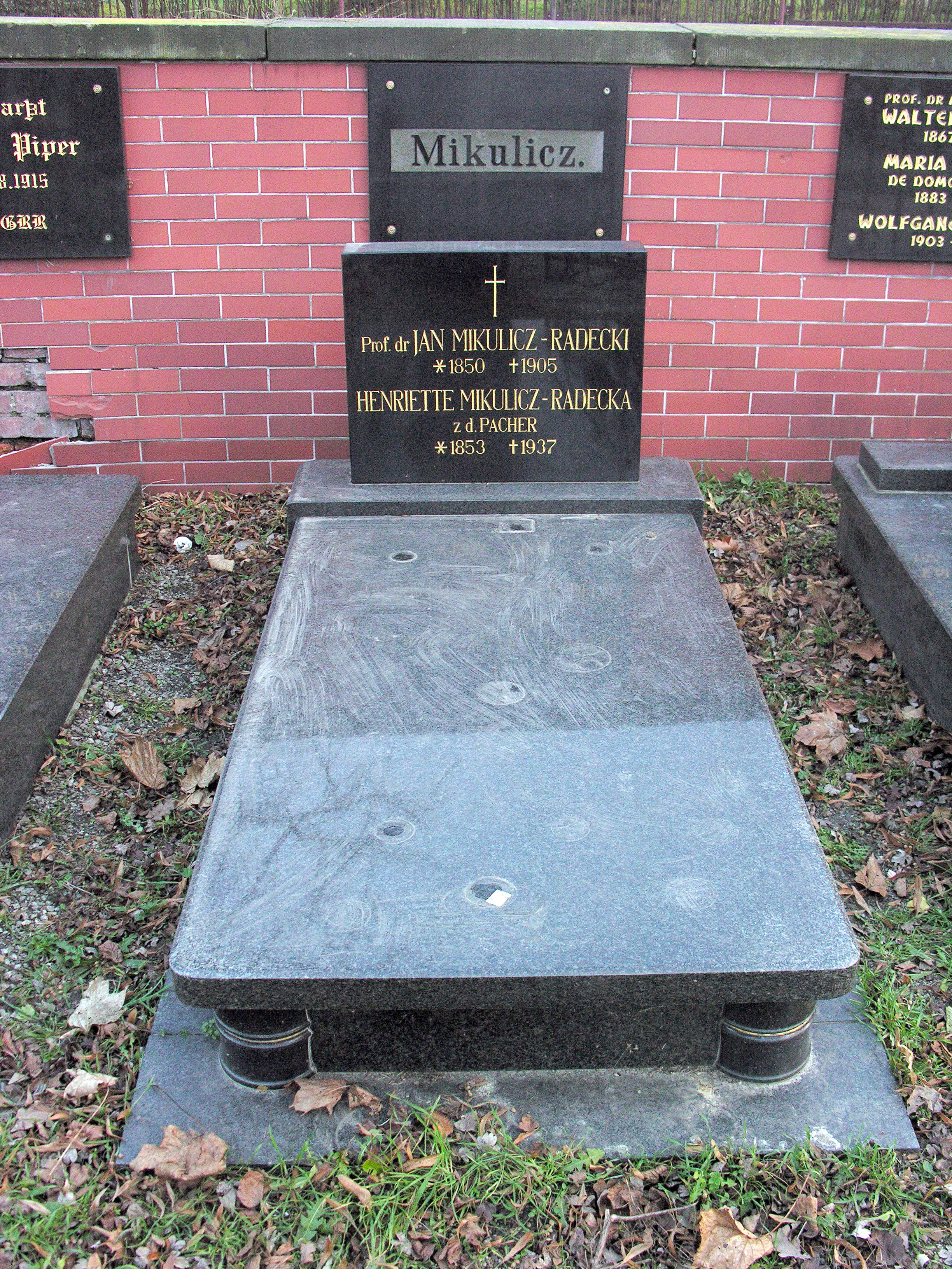 Grób Jana Mikulicza-Radeckiego w Świebodzicach